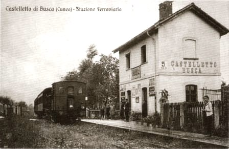 Castelletto Busca railway station